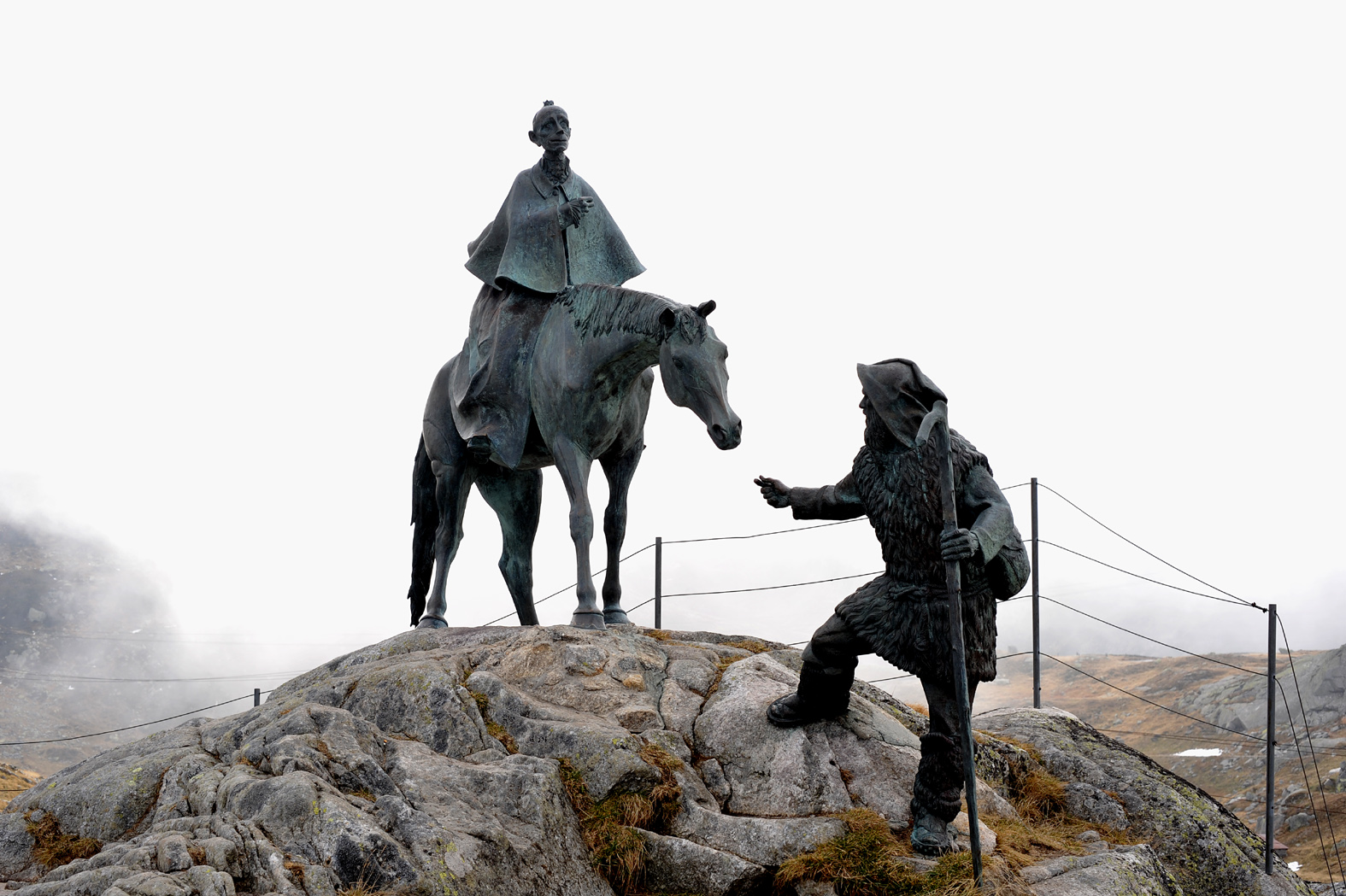 Equestrian statue of Alexander Vasilyevich Suvorov on the Gotthard pass; Ticino, Switzerland. The monument is a work by Dmitry N. Tugarinov of 1999.